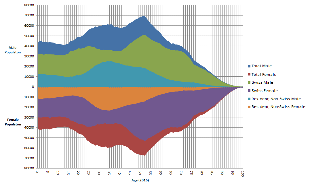 Population distribution of Switzerland by age, gender and nationality. Data is from 2016 from Stat-Tab of the Swiss Federal Statistical Office